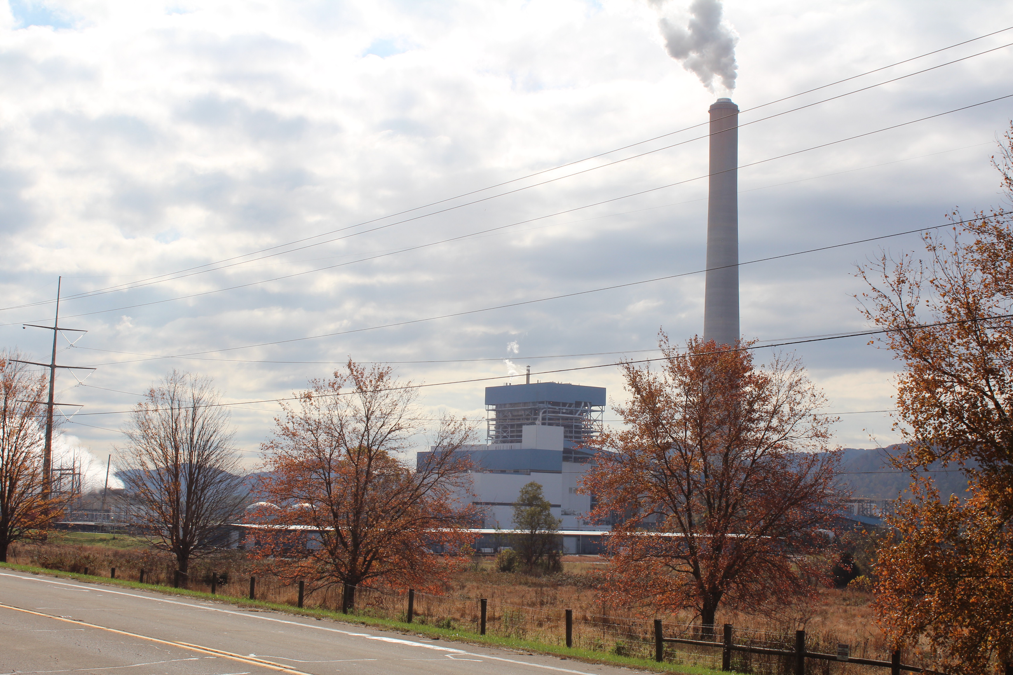 This is Killen Station, a coal-fired power plant, located in Adams County, Ohio.